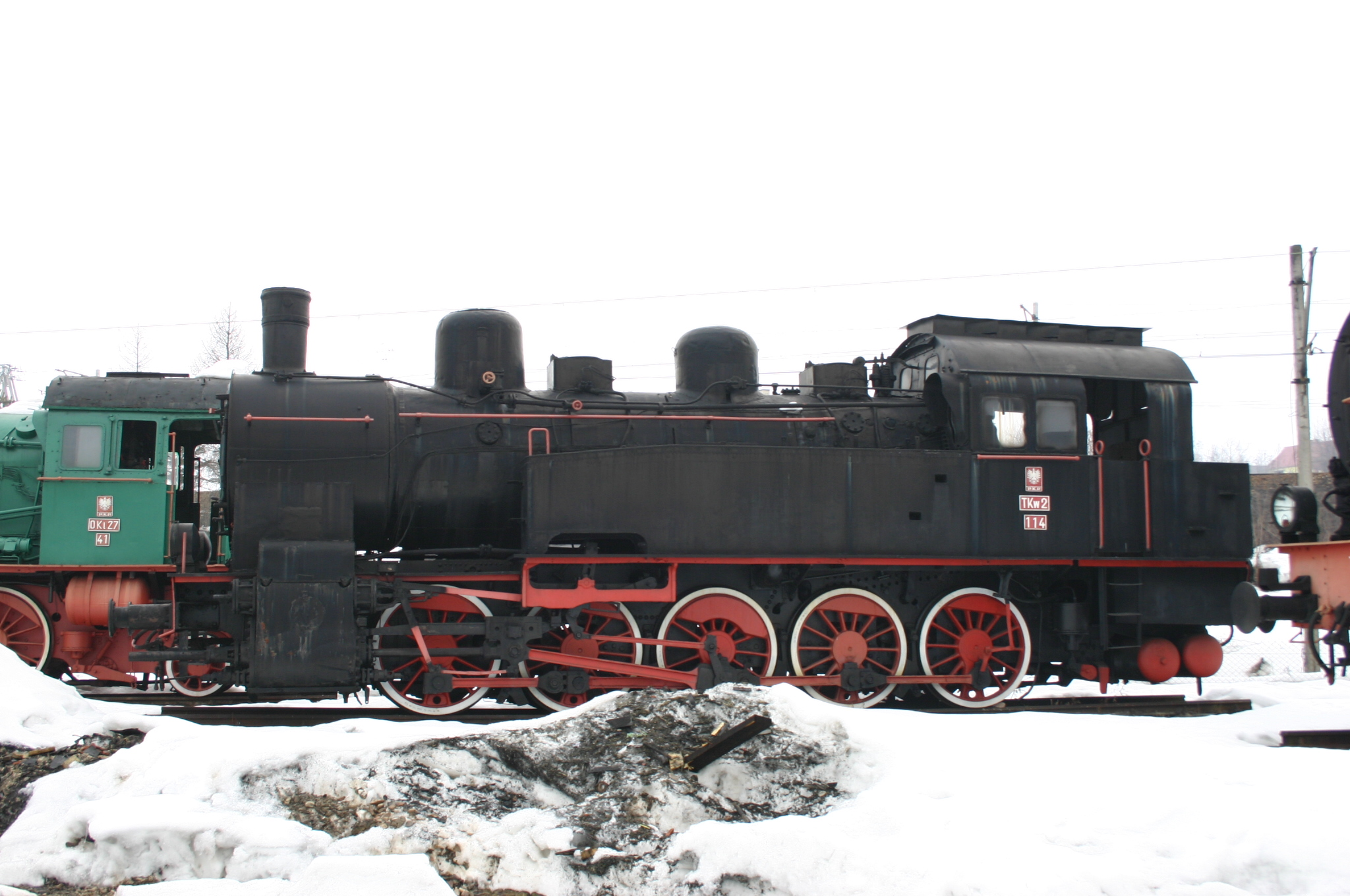 Locomotive TKw2-114 in museum in Chabówka (former KPEV T161 Meinz 8132, DRB 94 729)